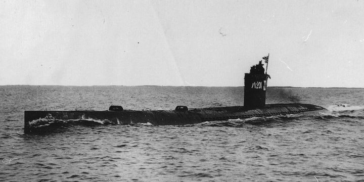 Japanese Submarine HA-201(SENTAKA-SHO-class) near Sasebo.